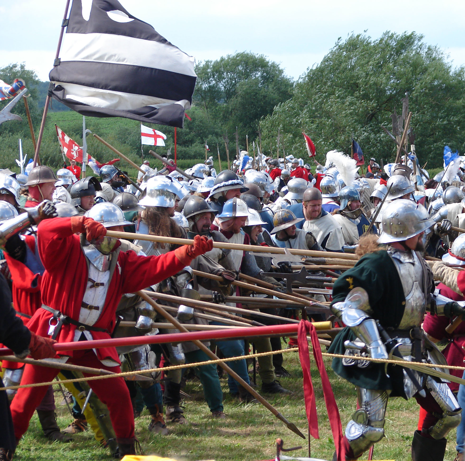 Battle Of Tewkesbury #8